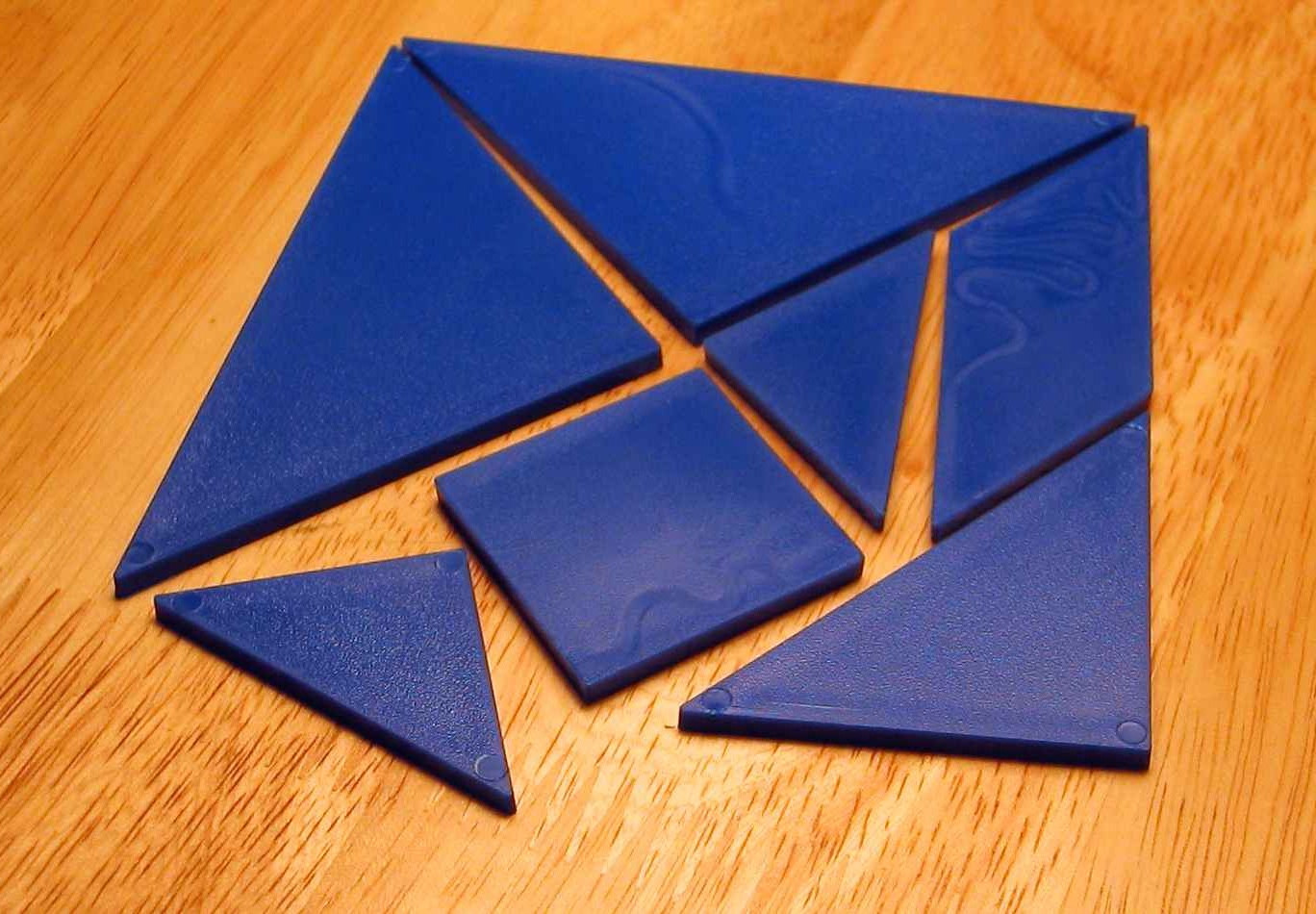 Inexpensive tangram set.